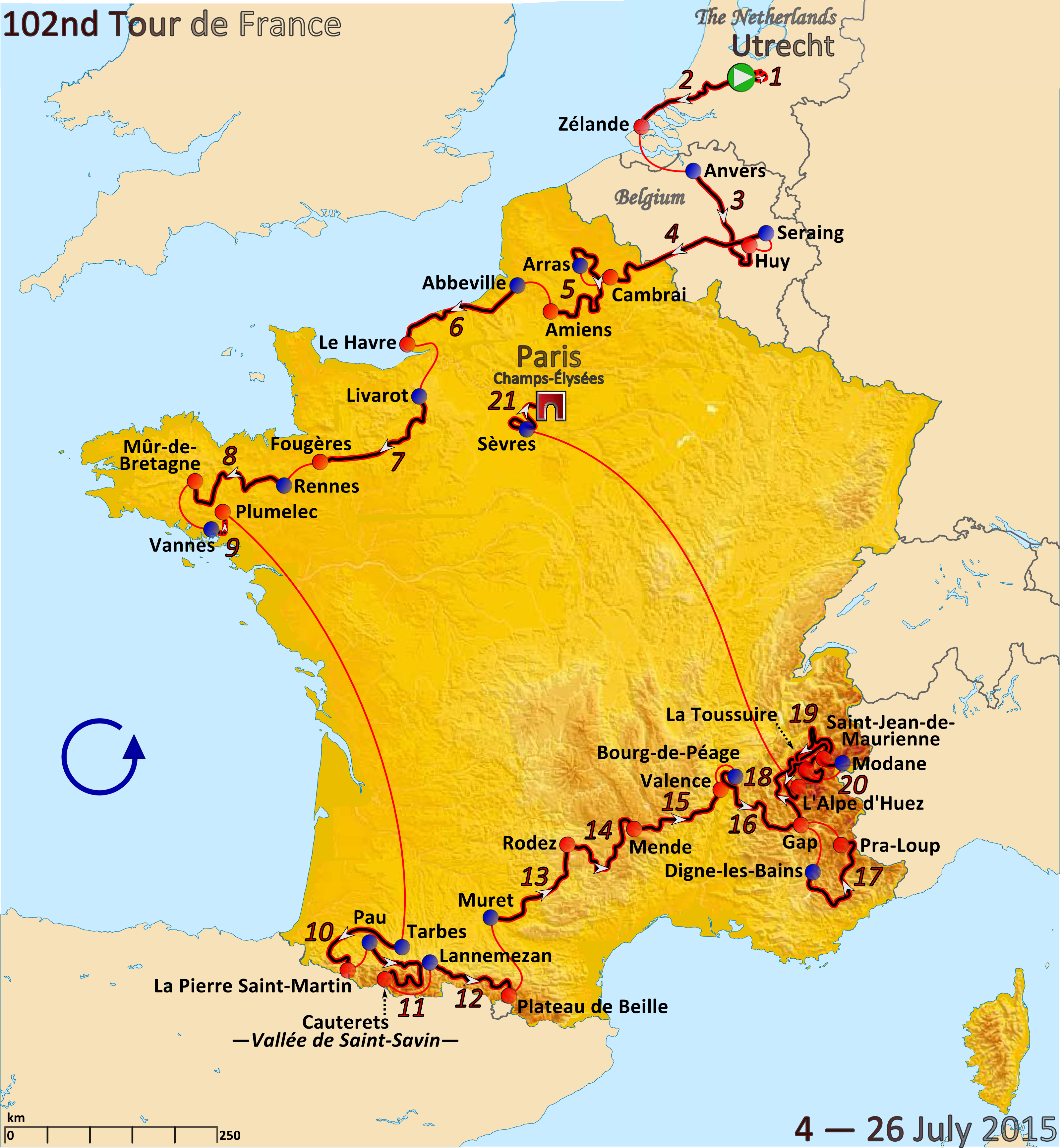 Map of the 2015 Tour de France drawn in Inkscape.